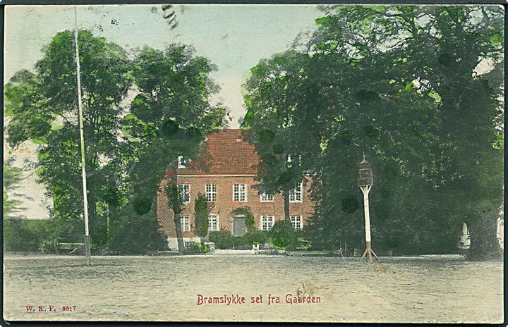 Vramsløkke from the courtyard on Lolland, Denmark